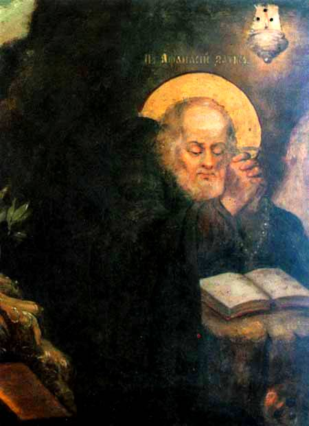 Saint Athanasius the Recluse of Kyiv Caves monastery, 12 th century. Venerable and Orthodox saint.